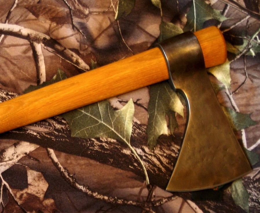 American made tomahawk by Sims Tactical Solutions.